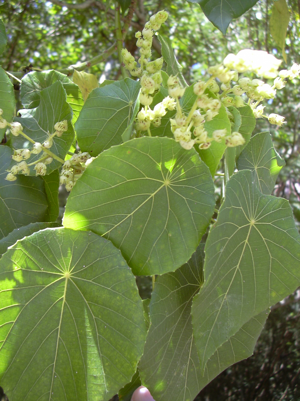 Macaranga tanarius (leaves and flowers). Location: Oahu, Malaekahana